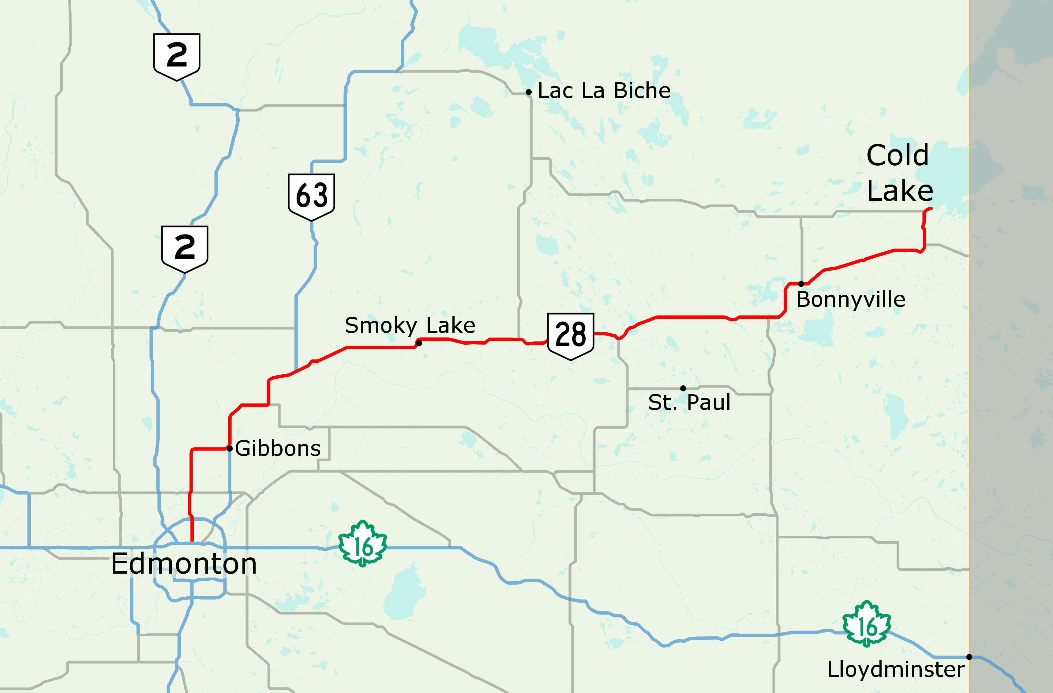 Highway 28 in north-central Alberta, Canada. - created with OpenStreetMap